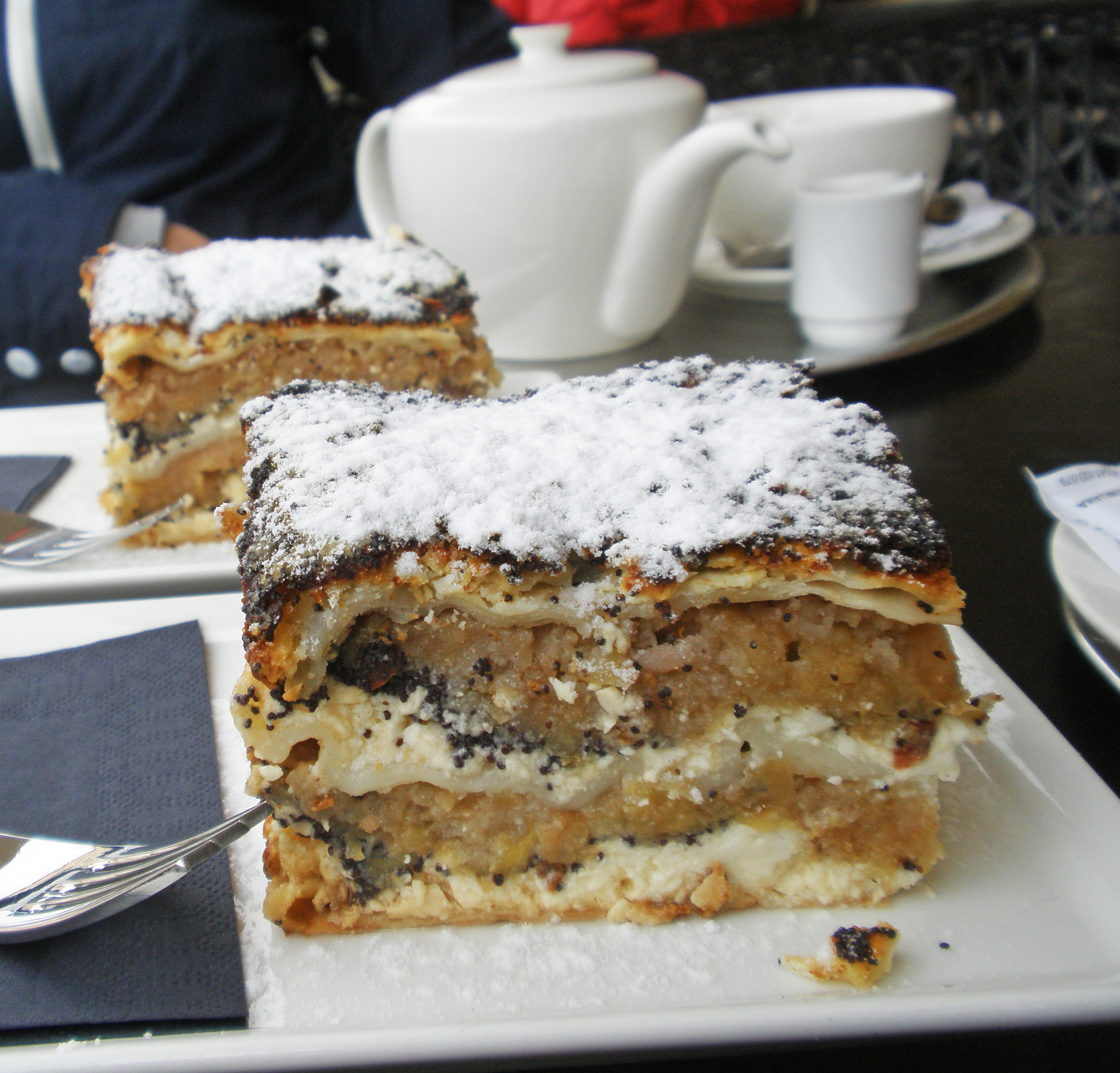 Prekmurska gibanica (Prekmurian layer cake or over-Mura moving cake) is a type of Slovenian gibanica or layered cake.[1] It contains poppy seeds, walnuts, apples, raisins and ricotta fillings. Although native to Prekmurje, it has achieved the status of a national specialty of Slovenia. The unique sweetmeat shows the variety of agriculture in this region. The name gibanica comes from dialectical expression güba and in this case refers to a fold.